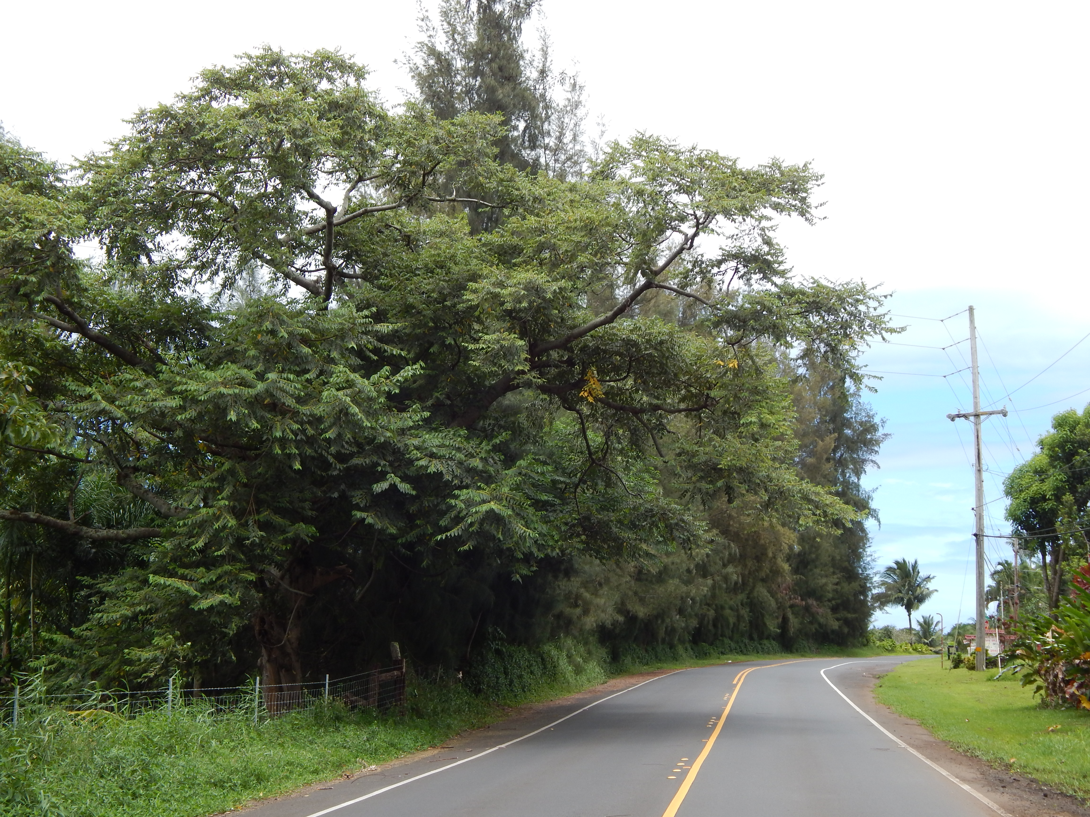 Trema orientalis (Gunpowder tree) Habit view road at Hana Hwy, Maui, Hawaii. February 22, 2014 #140222-0378 Image Use Policy Also placed in Ulmaceae.